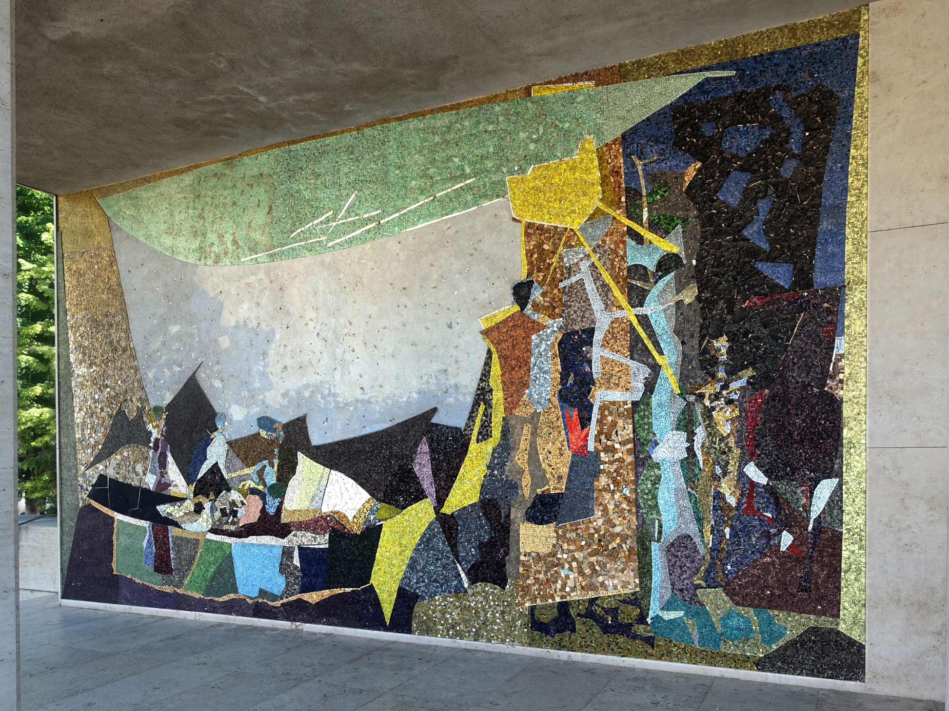 Wand Mosaik, Kennen und Erkennen, 1955-60, Eingang Spalengraben, Universität Basel, Schweiz. Von Coghuf, Ernst Stocker (1905-1976) Künstler